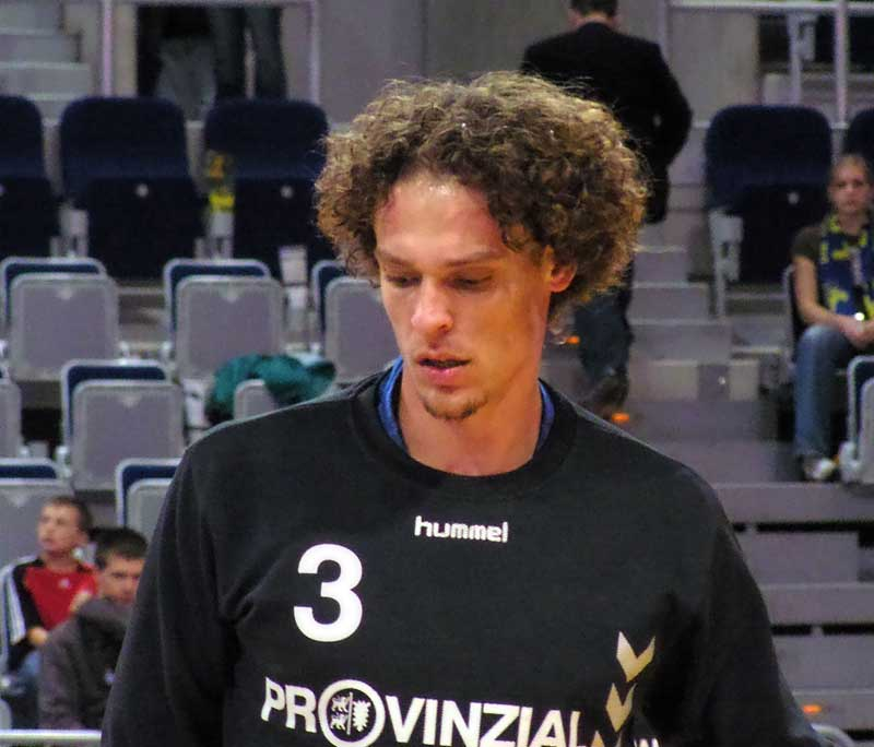 Frank von Behren, prior the game SG Kronau-Östringen vers. SG Flensburg-Handewitt on September 16th, 2006 in Mannheim (Germany).